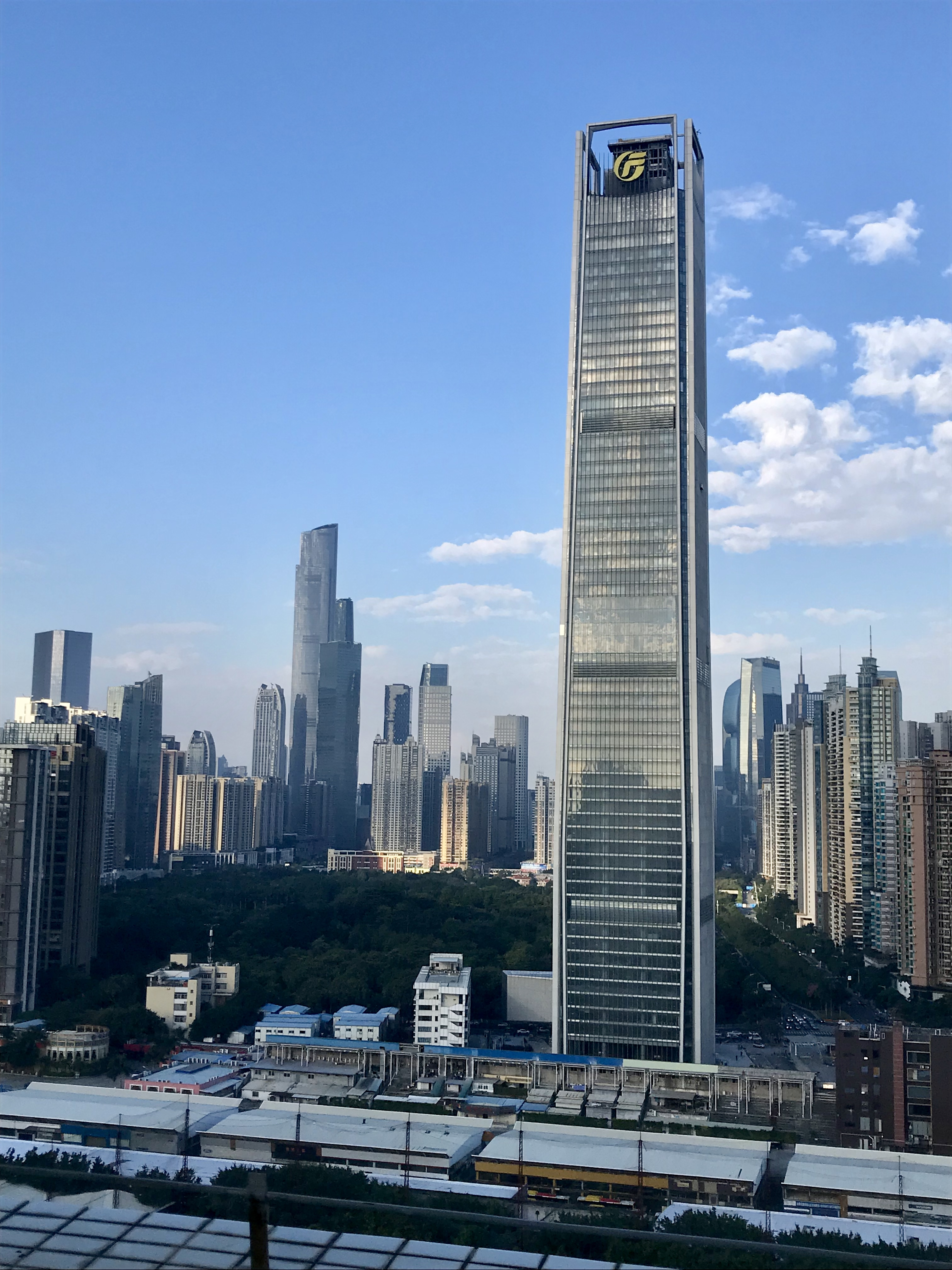 Guangfa Securities Headquarters 粵語: 廣發證券總部大廈